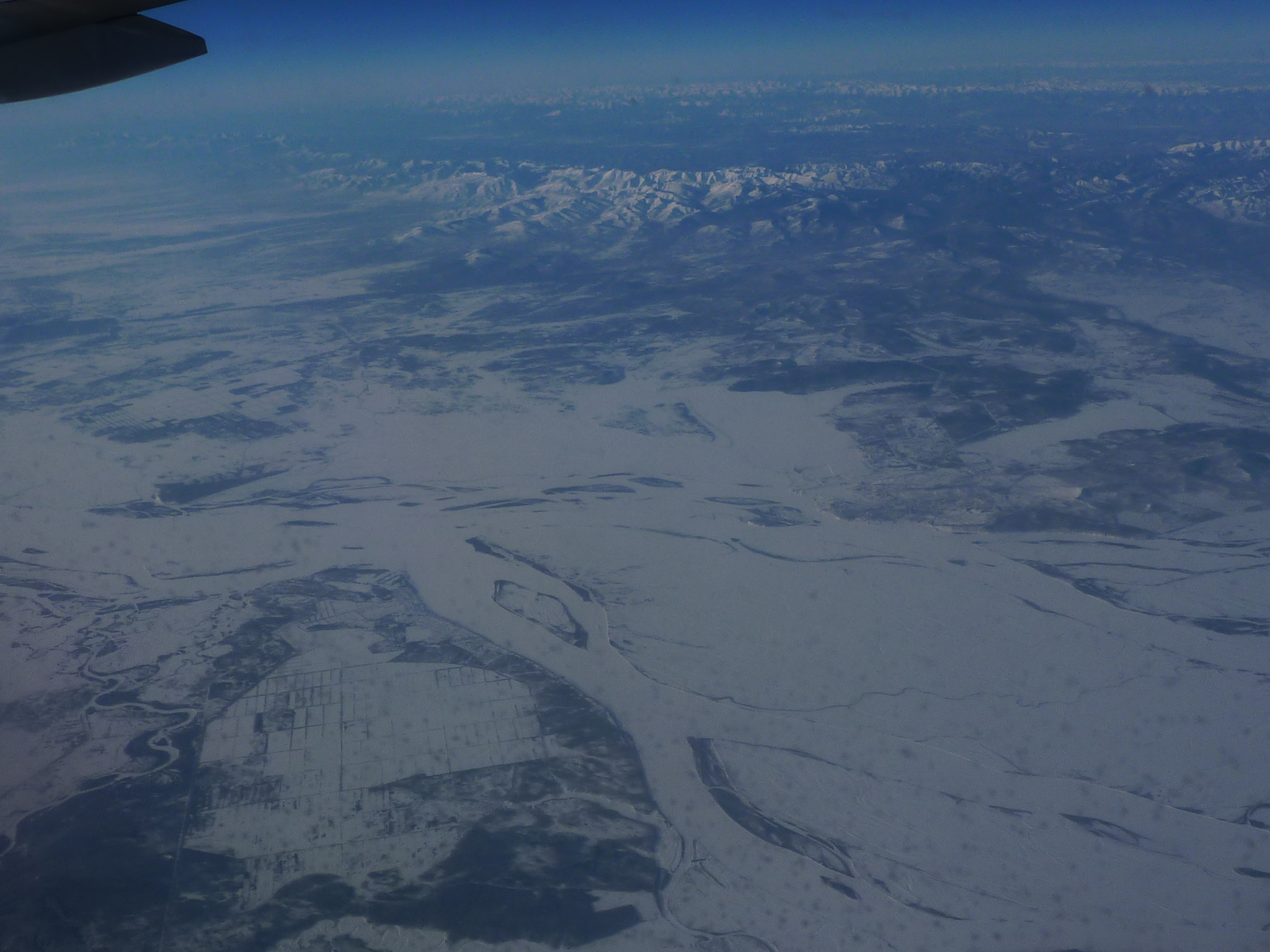 An aerial view of the Amur River south of Amursk, seen from the east. The large village on the right (closer to us) bank of the river is Voznesenskoye (with the nearby Dippy and Ust-Gur), if Google Maps sat view is to be trusted. Photo taken from an AA aircraft on a non-stop ORD-PVG flight